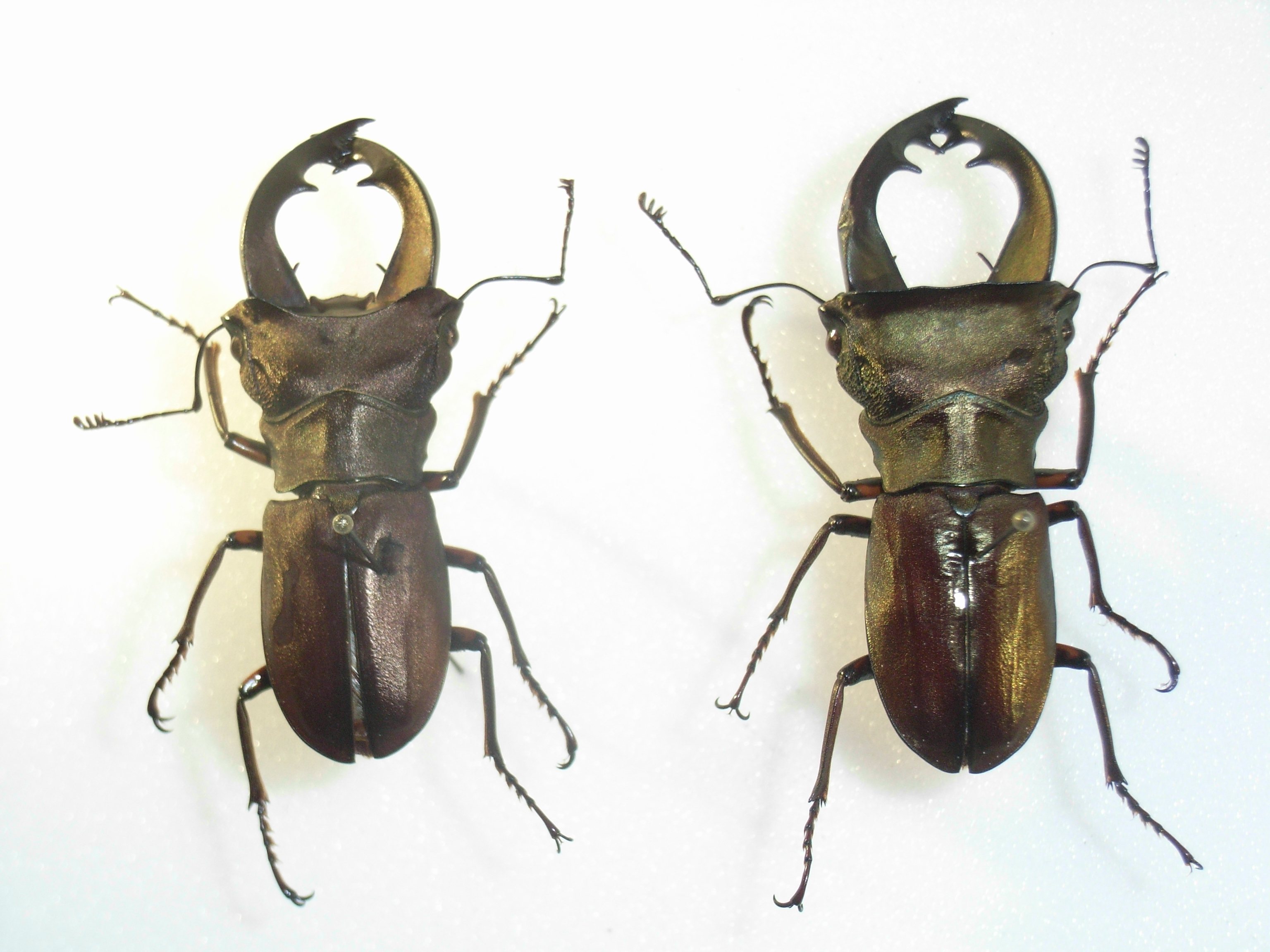 Cyclommatus speciosus aenepsius Ex coll. Felix Stumpe